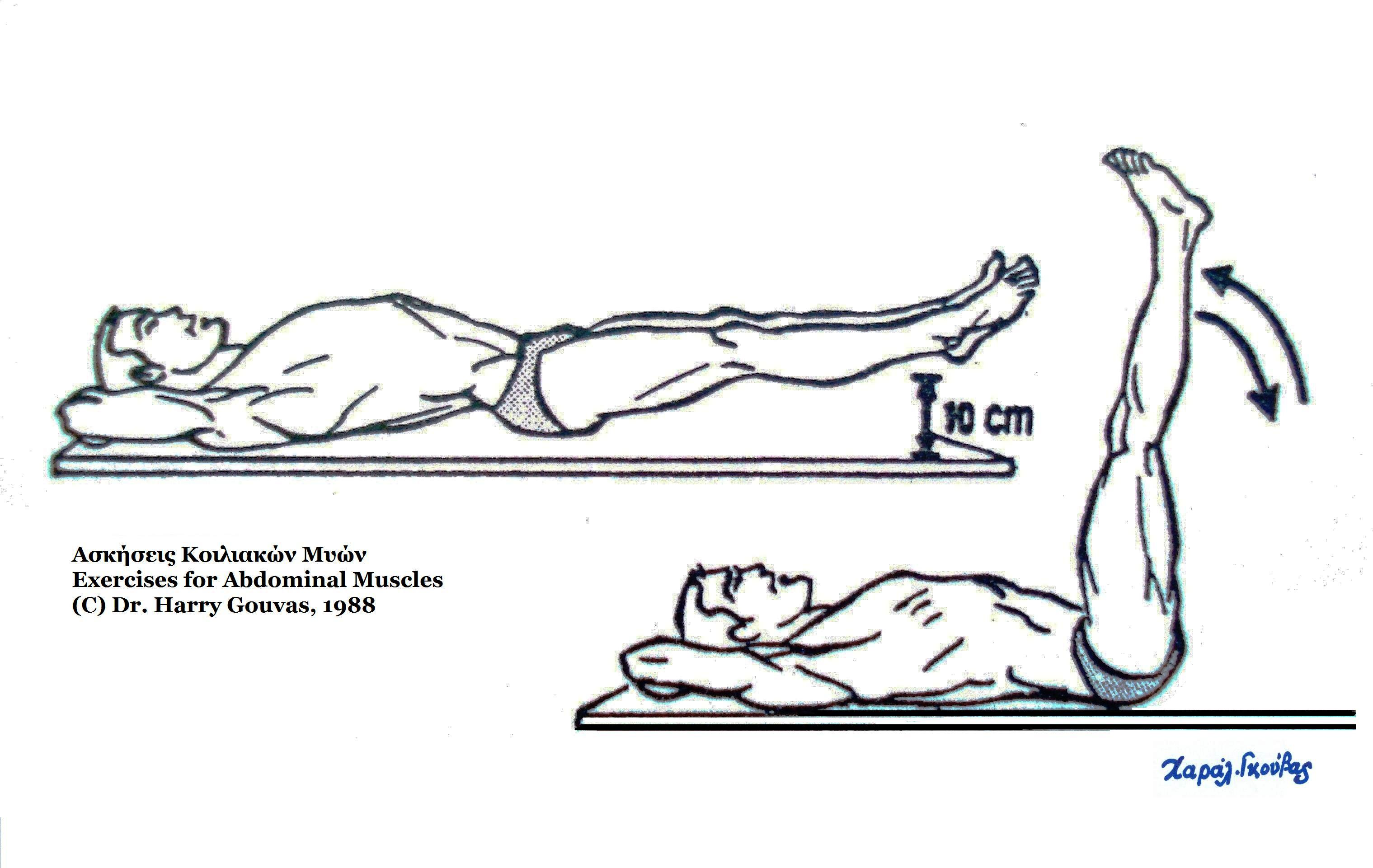 Excercises for abdominal muscles